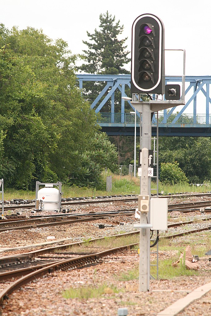 Carré Violet- This signal is used to indicate an absolute stop for service tracks.